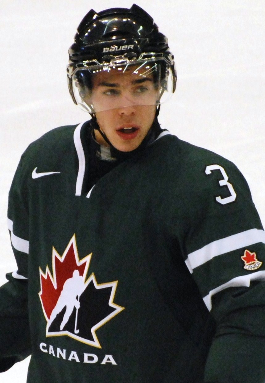 Travis Hamonic during a pre-tournament game for Canada.